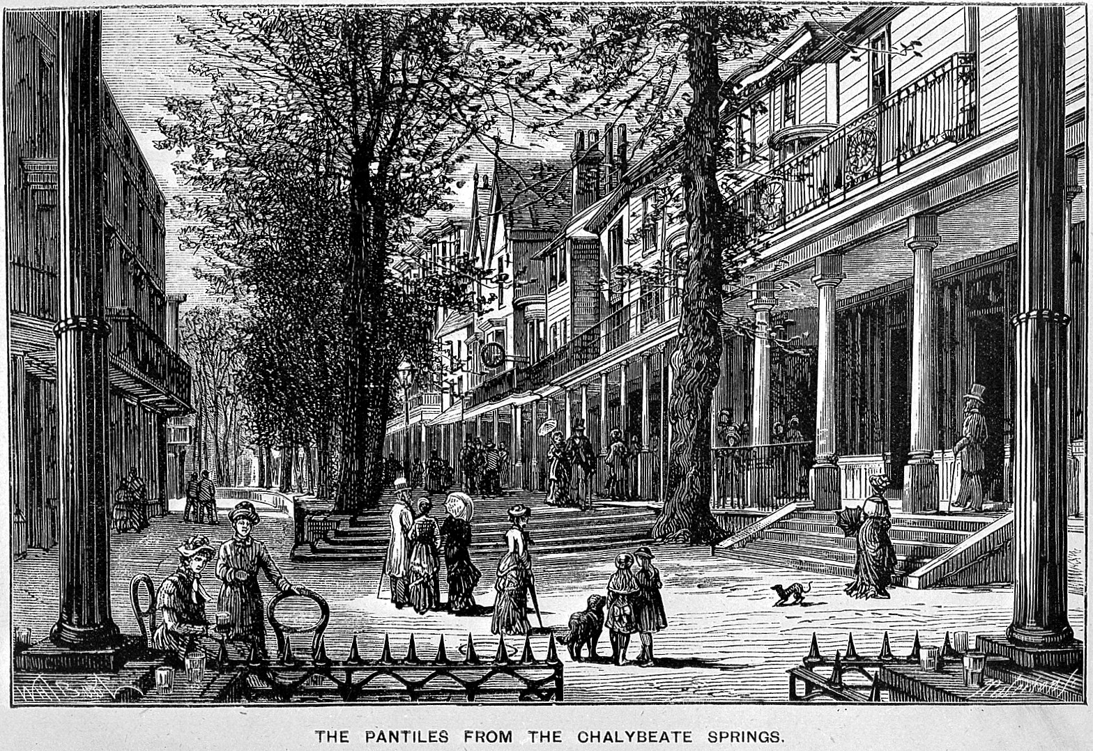 Tunbridge Wells: the Pantiles from the Chalybeate Springs Wellcome Images Keywords: Balneology